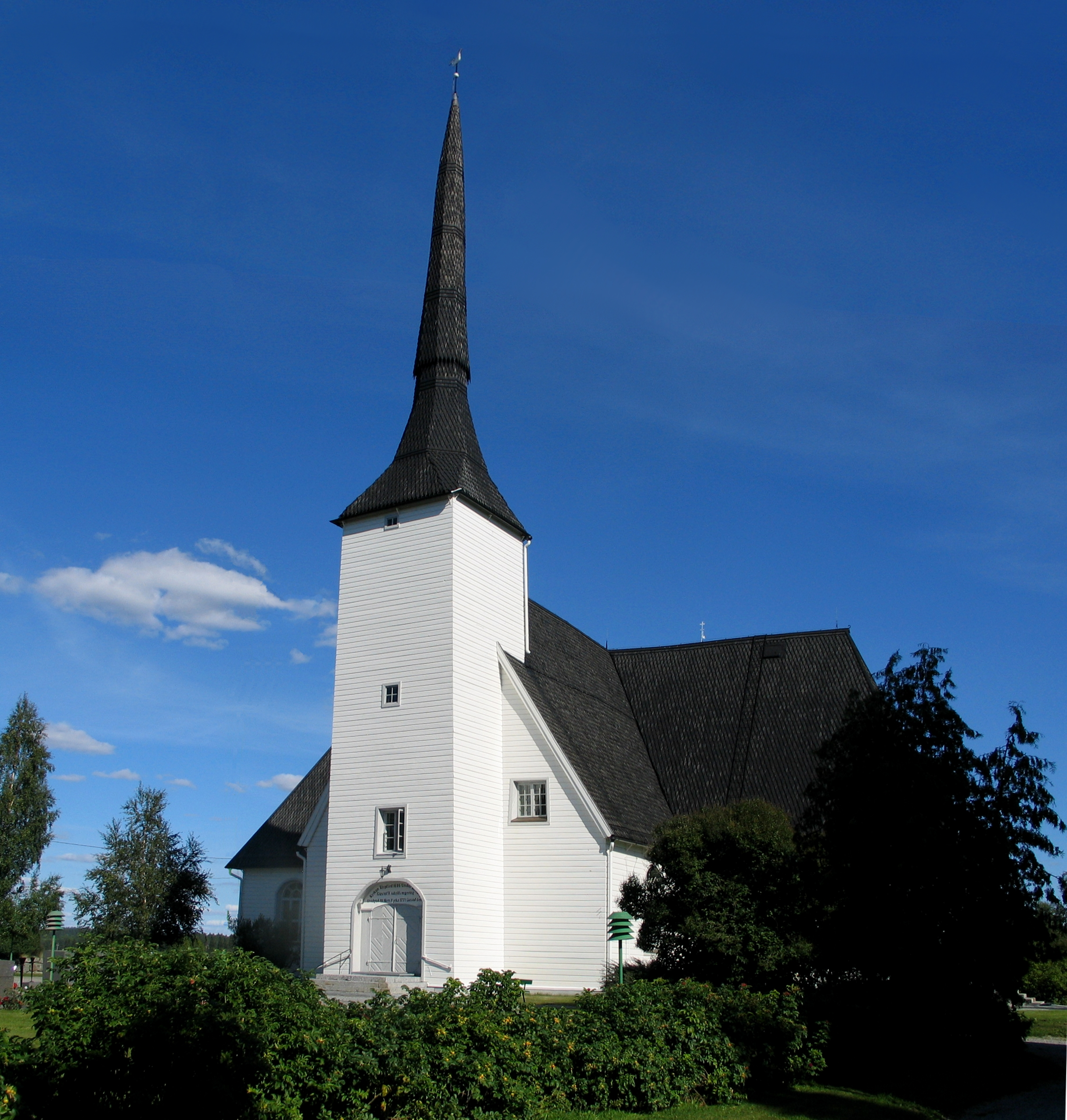 Church of Vörå in Ostrobothnia, Finland.